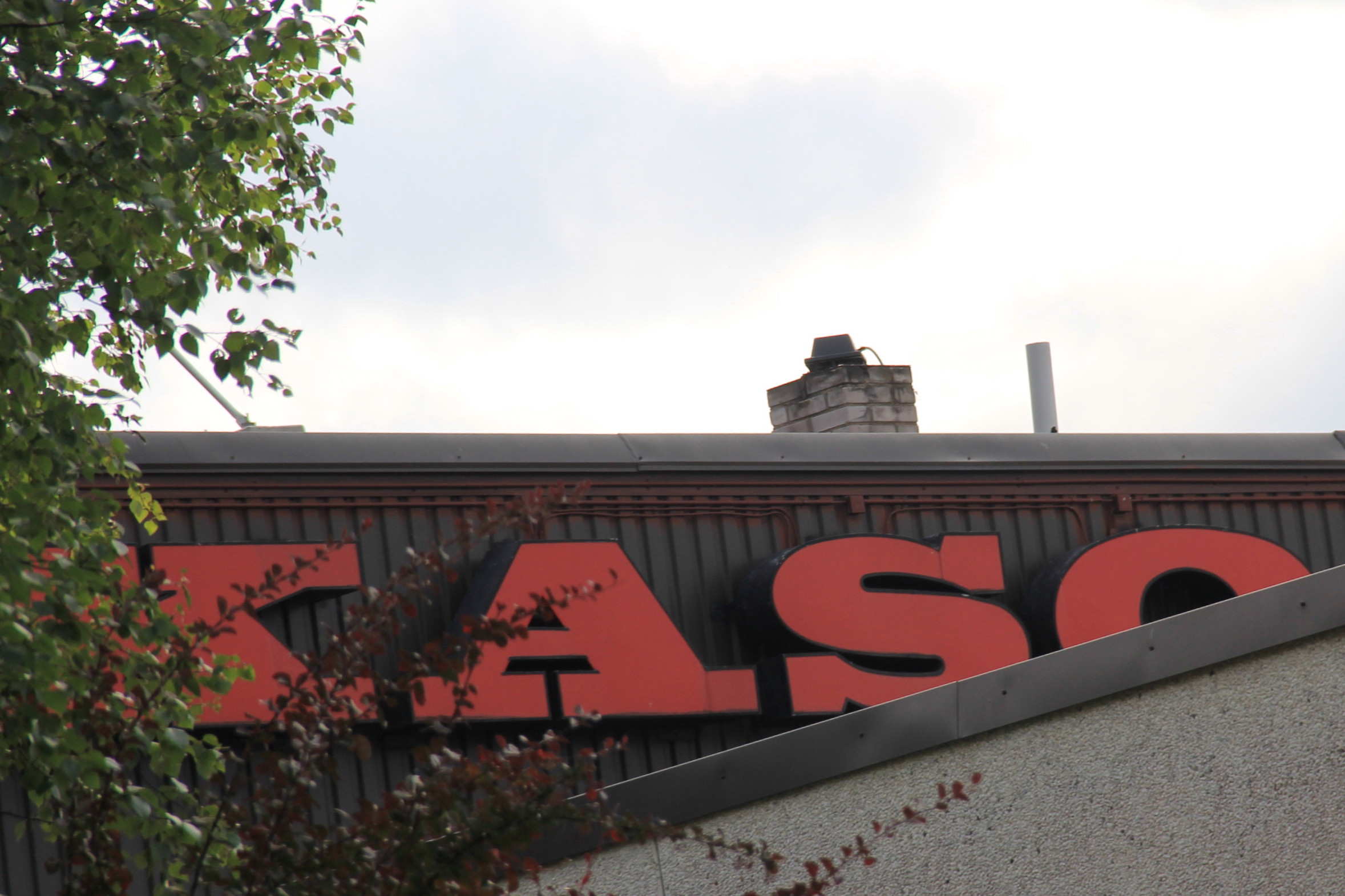 Kaso company neon, Suutarila, Helsinki, Finland.